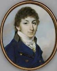 Charles Elphinstone Fleeming (miniature) by George Engelheart died 1829 (this painting is said to date from 1789.)